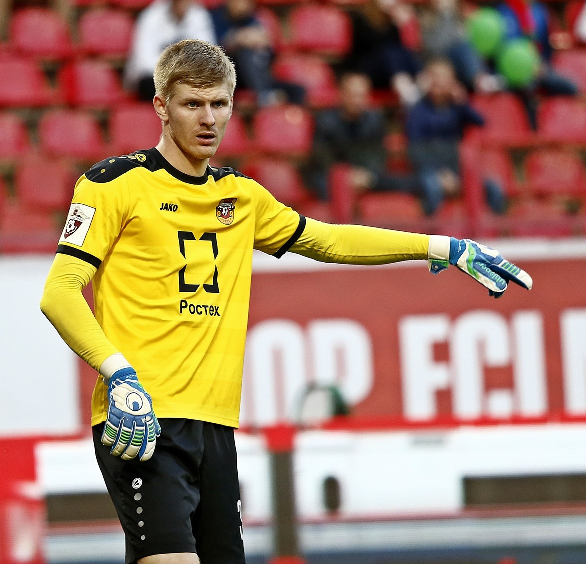 Mikhail Levashov with FC Arsenal Tula in a game against FC Lokomotiv Moscow.